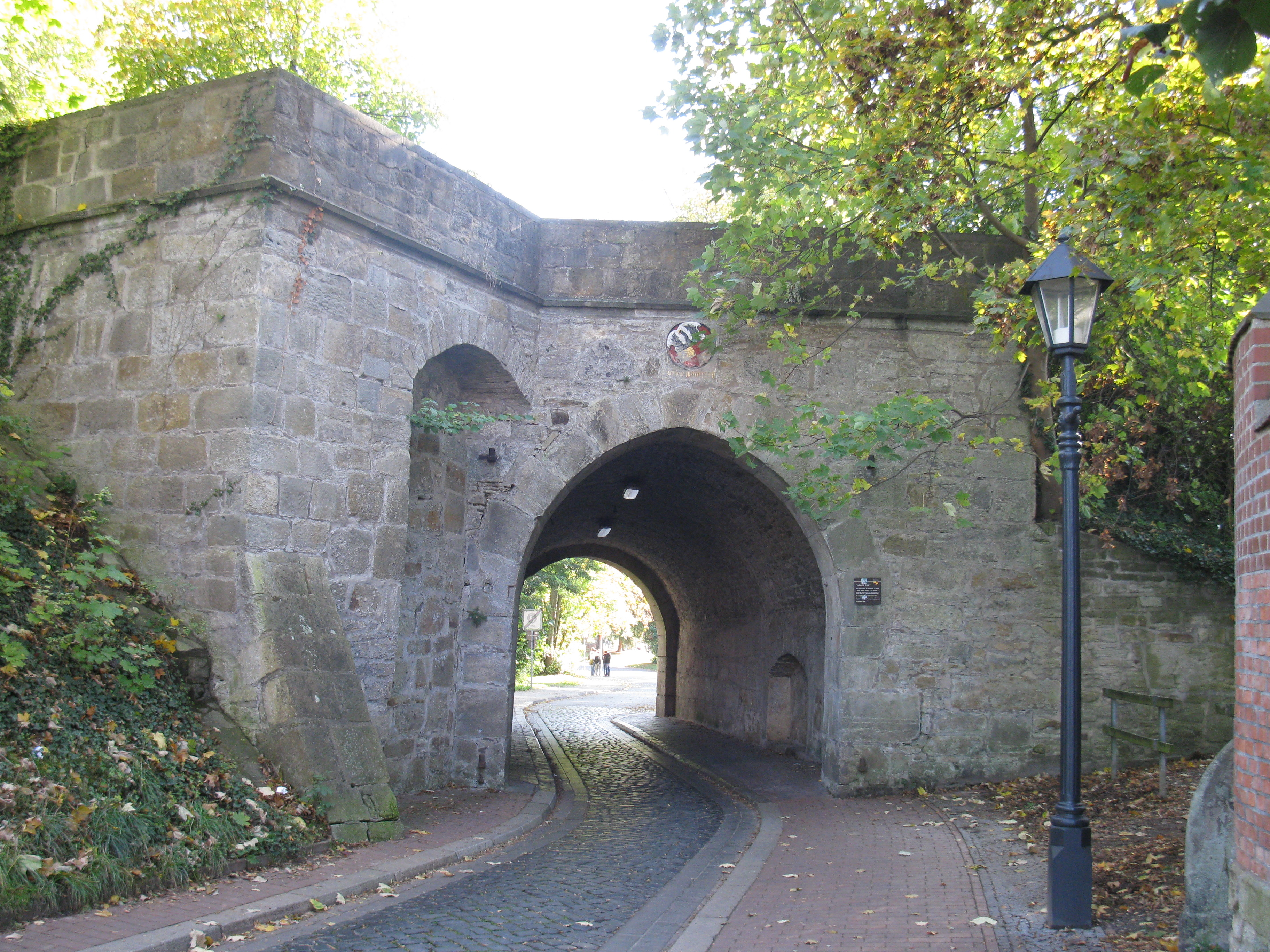 Former city gate Neues Tor (14th century), Hildesheim